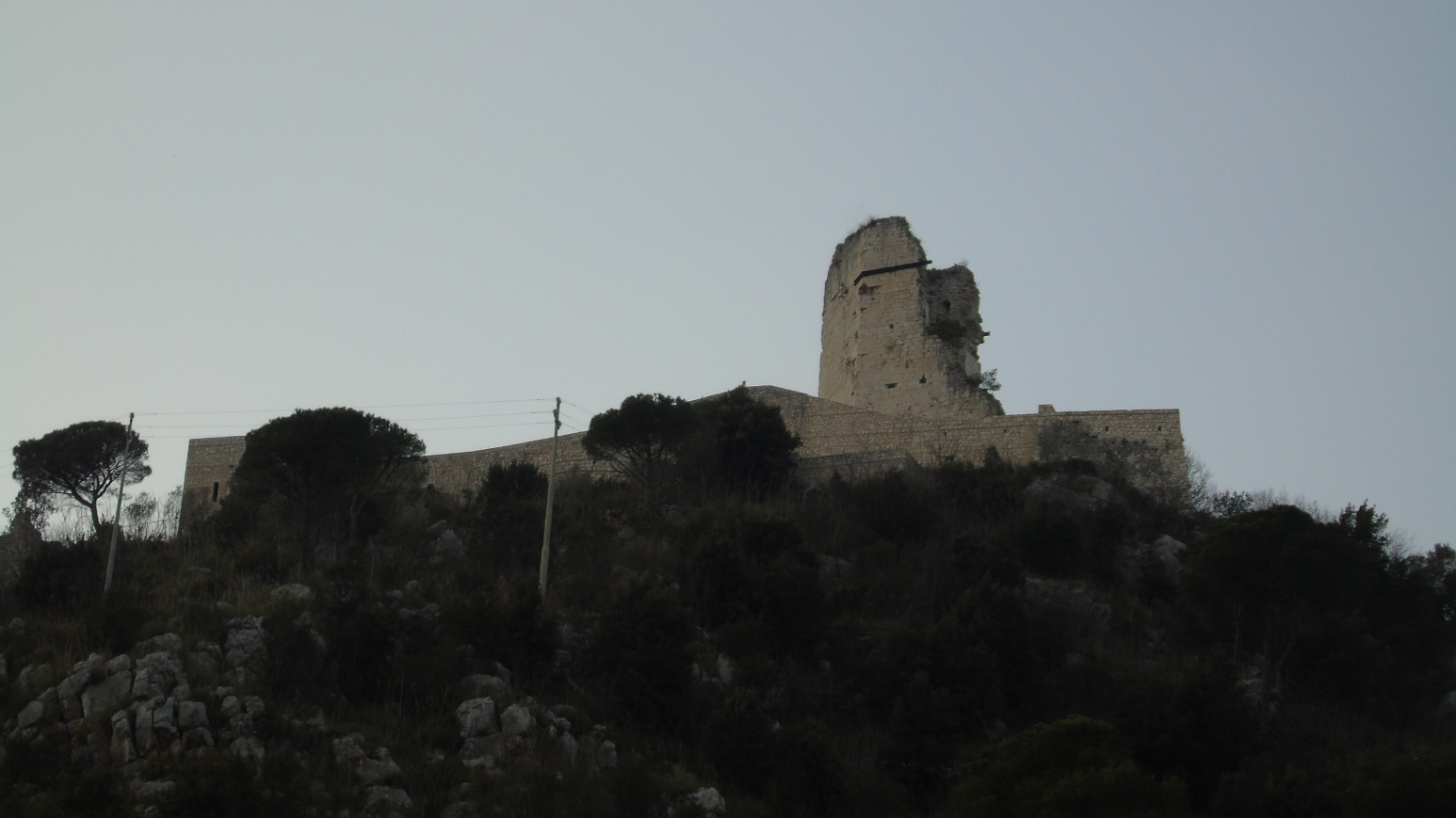 Rocca Janula, Cassino